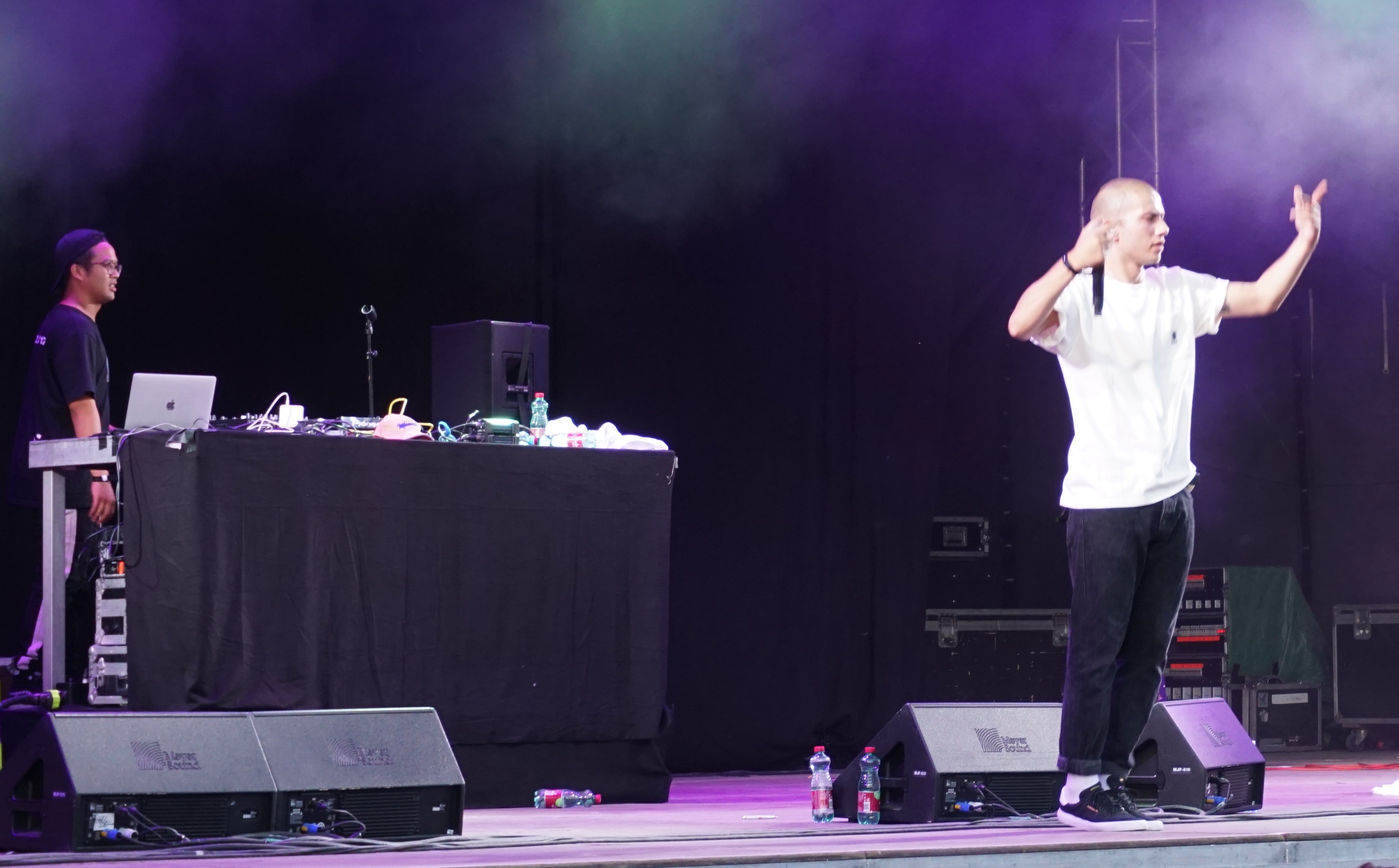 Jugo Ürdens performing at Donauinselfest Vienna 2019 Аҧсшәа: Jugo Ürdens am Donauinselfest 2019 in Wien